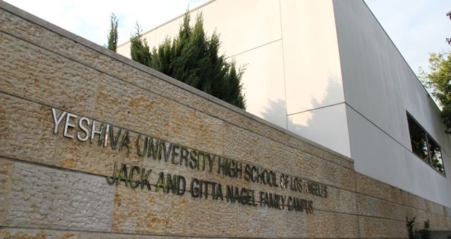 yula boys exterior